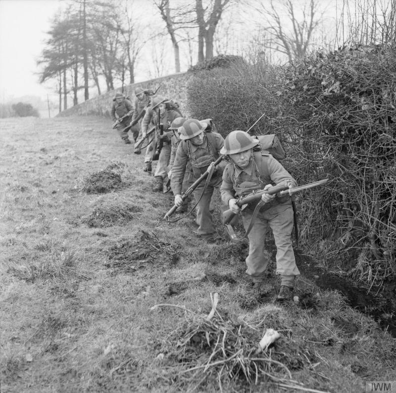 A patrol from 4th Battalion, Northamptonshire Regiment (part of the 61st Infantry Division), advance warily alongside a hedge during training at Omagh in Northern Ireland, 5 February 1942.